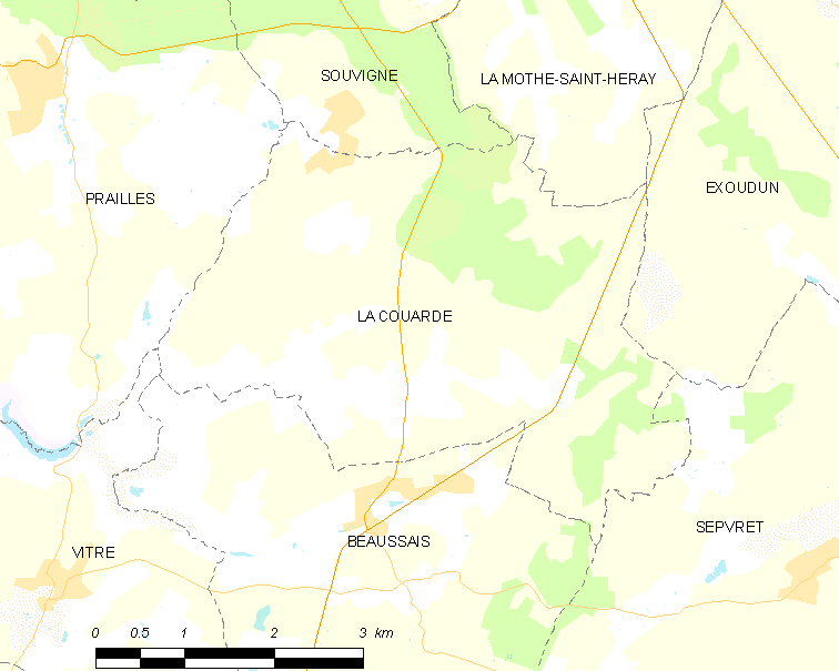 Map of French municipality La Couarde